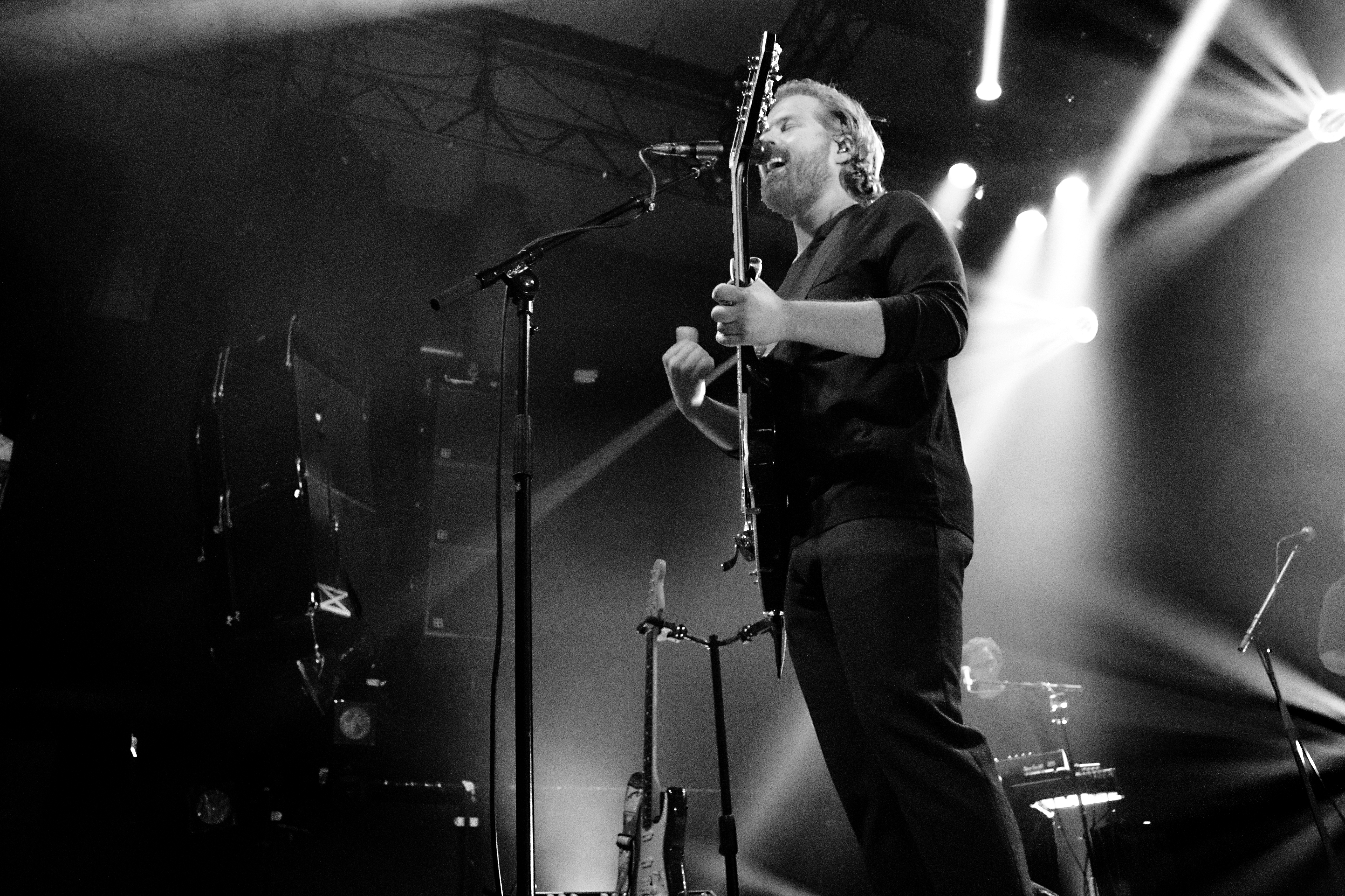 Kristian Kristensen live at Rockefeller